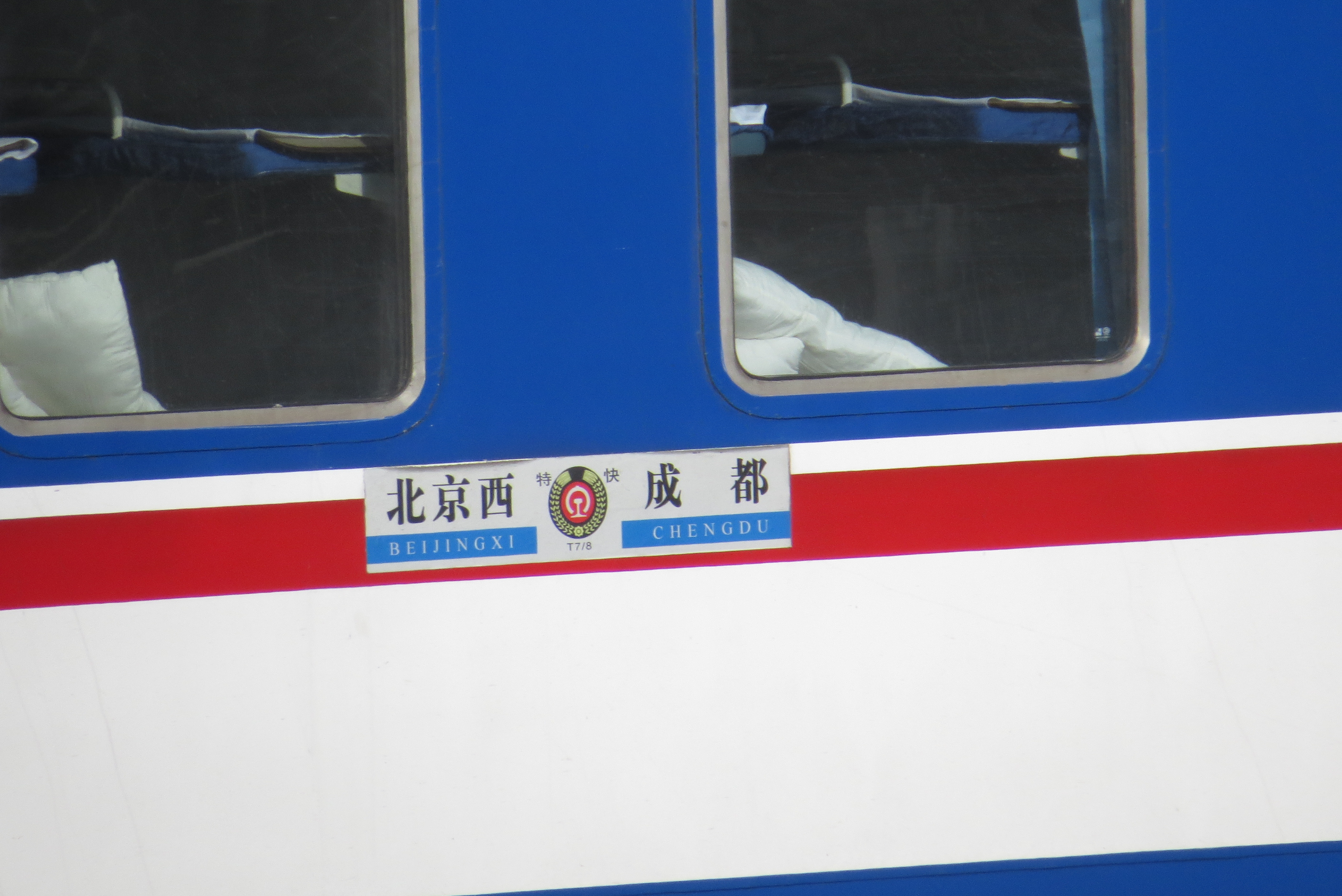 This Beijing-Chengdu train is called “Star of the Land of Abundance”. What a pity I didn't catch up with 57124!